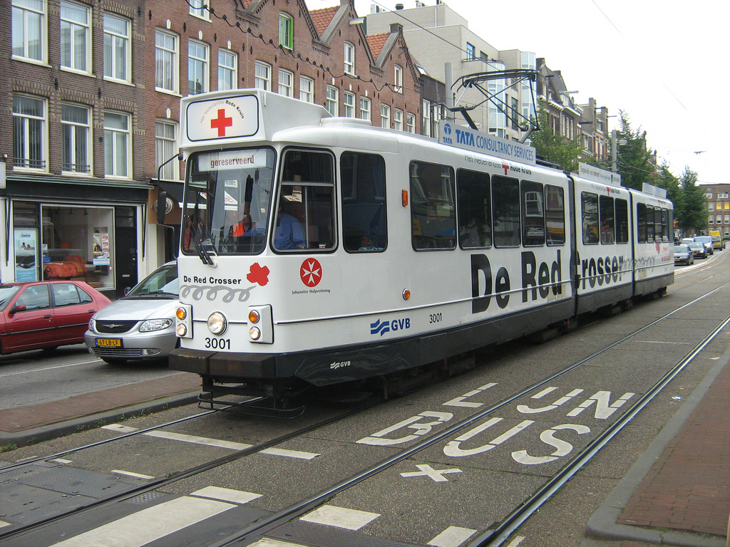 "De Red Crosser", a special train of the Amsterdam Tram in cooperation with the Dutch Red Cross which is used for sightseeing tours for handicapped or elder people